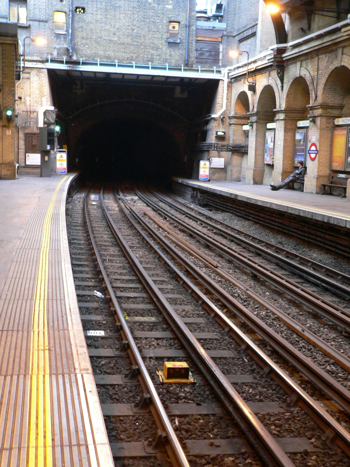 The Circle and District Line tube station at Paddington station (Praed Street) - southbound/anticlockwise (inner rail) platform.